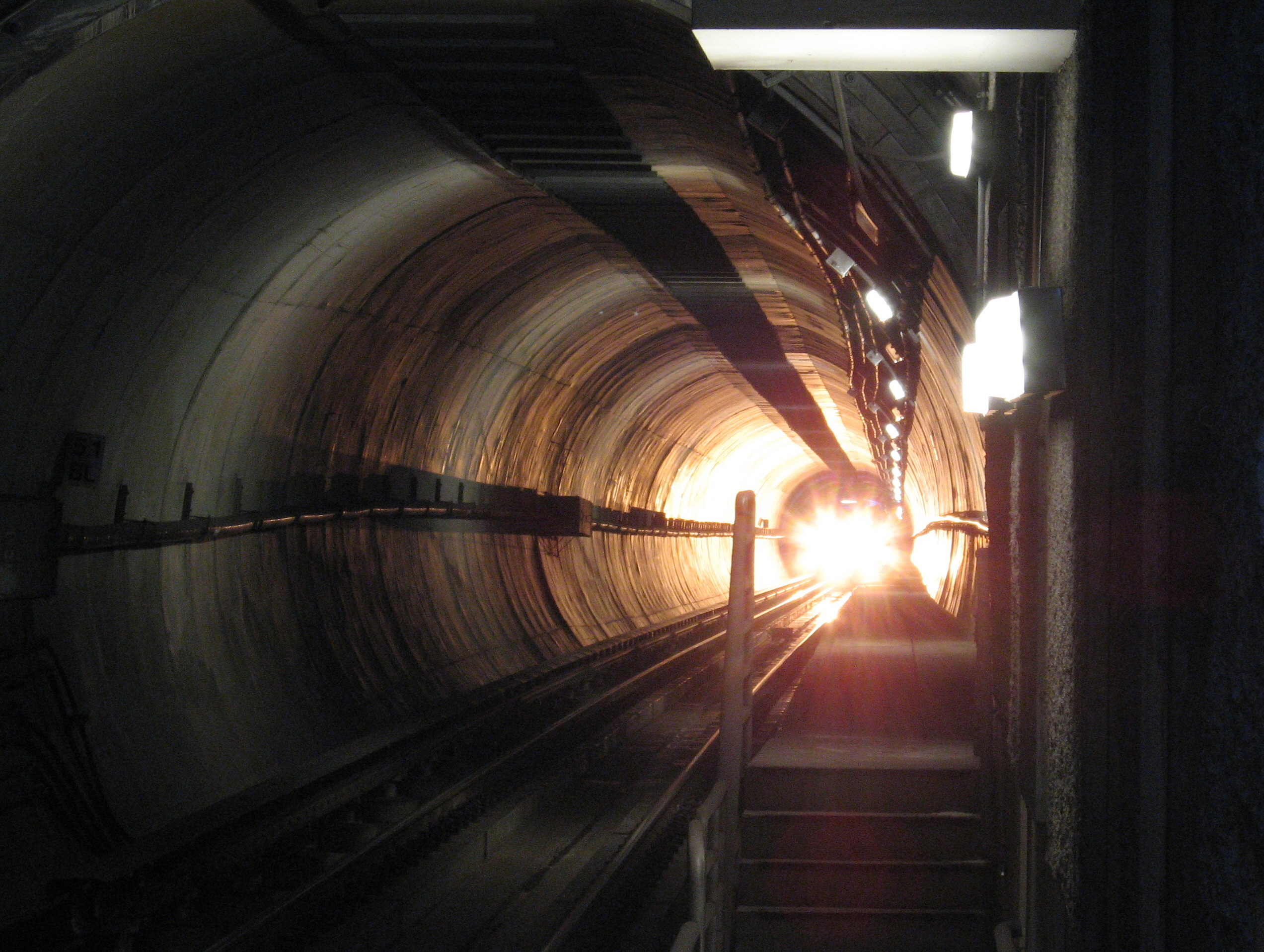 Self-made photo of the bright front light of a subway train in a tunnel approaching a station on the Los Angeles MTA Purple Line.